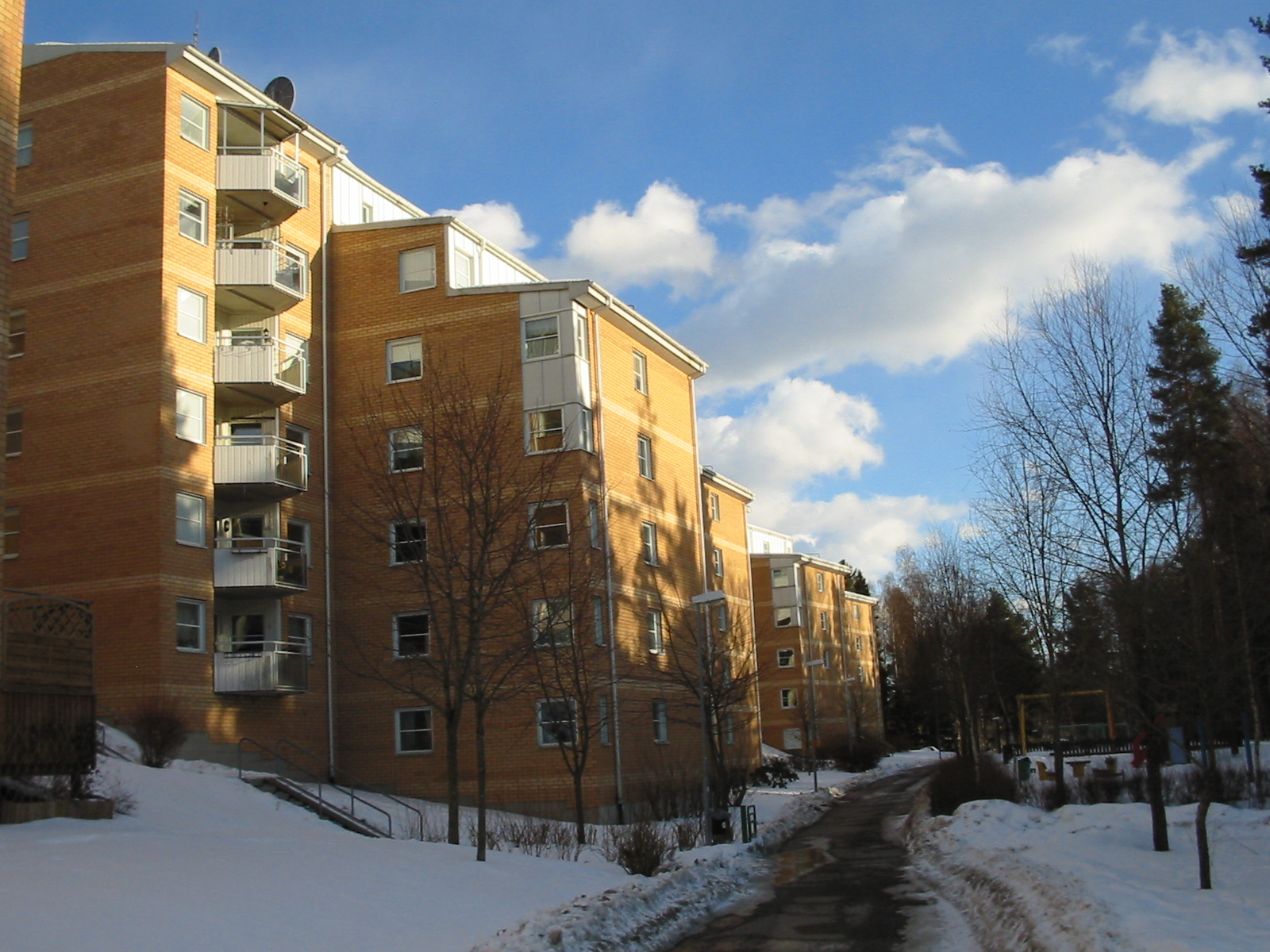 The Laxtrappan residential block at Siklöjevägen in Bollmora, Tyresö, Sweden.